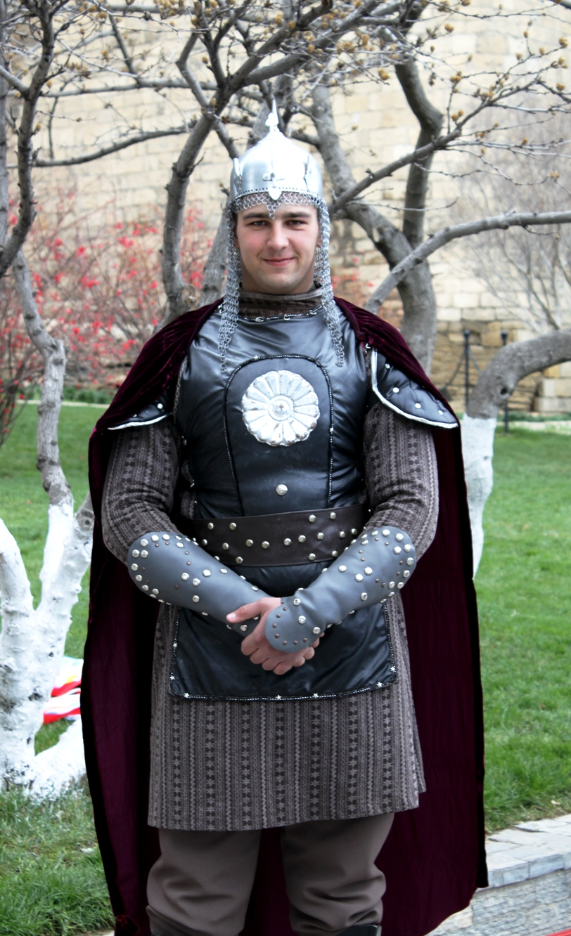 A man wearing an old-style Azerbaijani military garment during a Nowruz celebration in Baku, Azerbaijan.